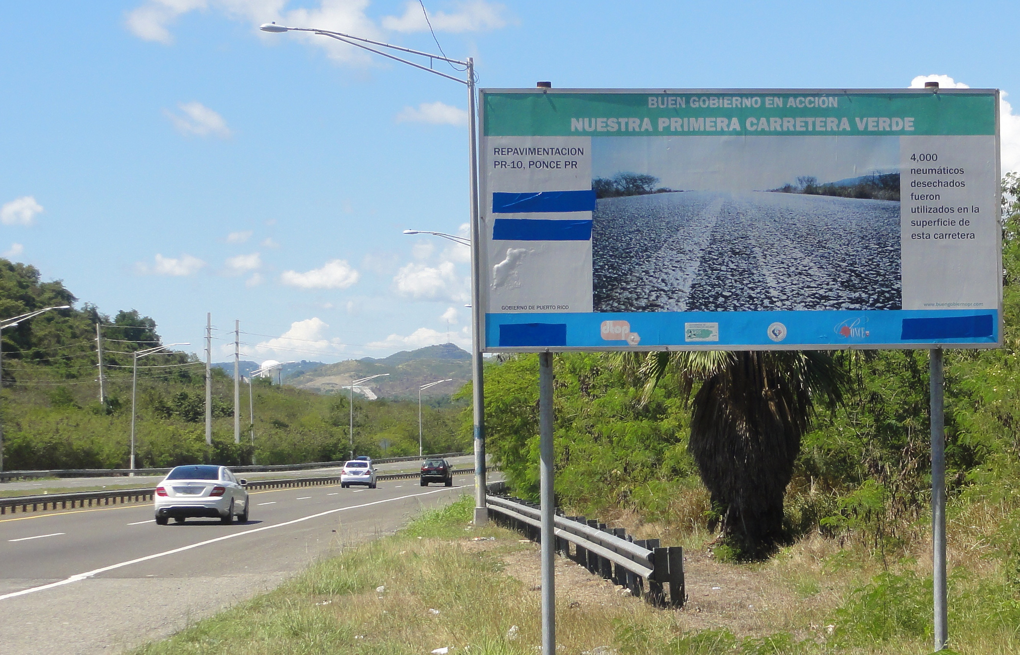 A sign on PR-10 in Ponce, Puerto Rico that reads "PR-10, our (Puerto Rico's) first green road. 4,000 used car tires were used to build the surface of this road."